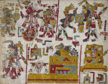 Codex Zouche-Nuttall, folio 89, representing a gladiatorial sacrifice.